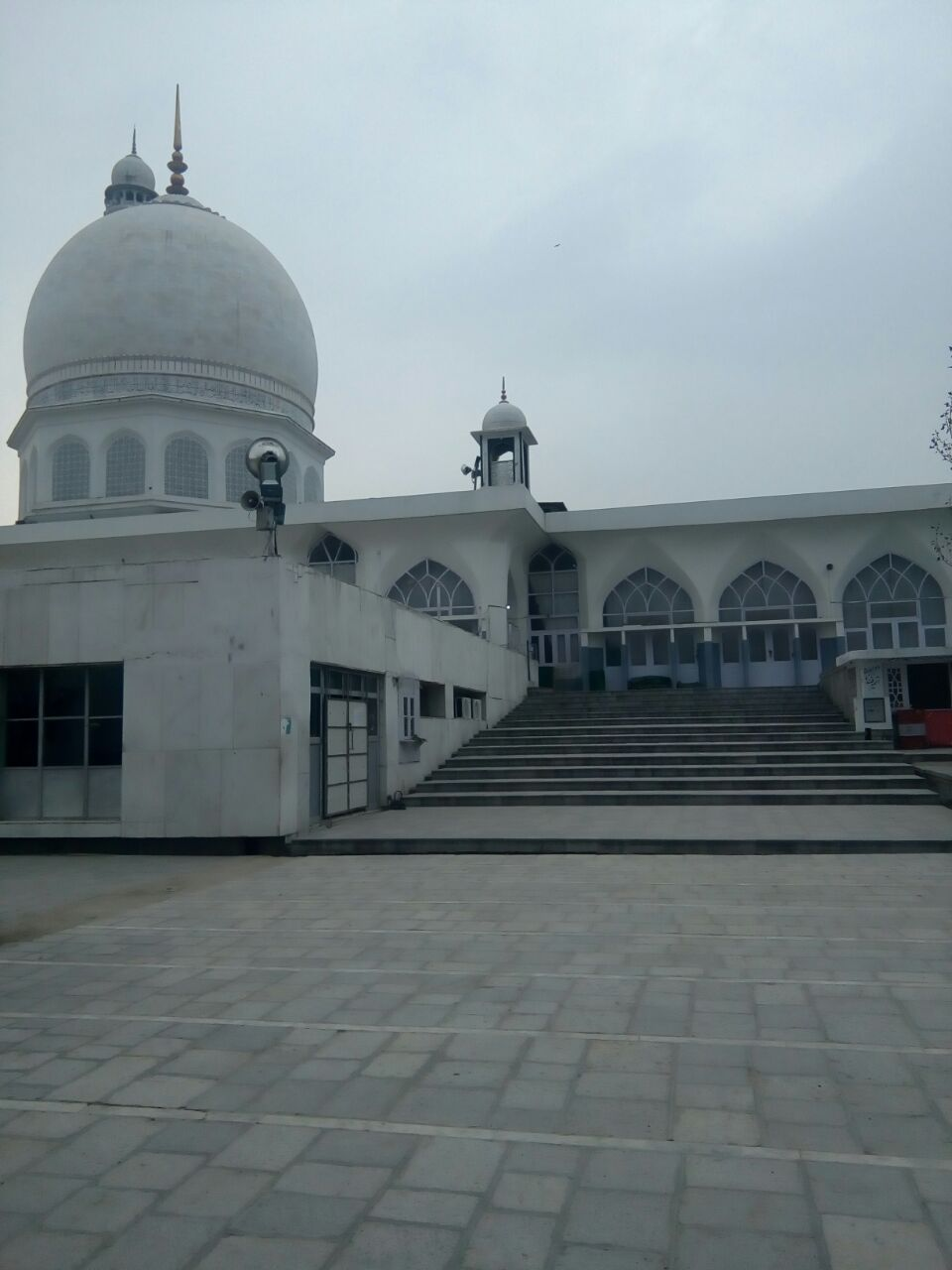 The Hazratbal Shrine is a Muslim shrine in Hazratbal, Srinagar, Jammu & Kashmir. It contains a relic, the Moi-e-Muqqadas, believed by many Muslims of Kashmir